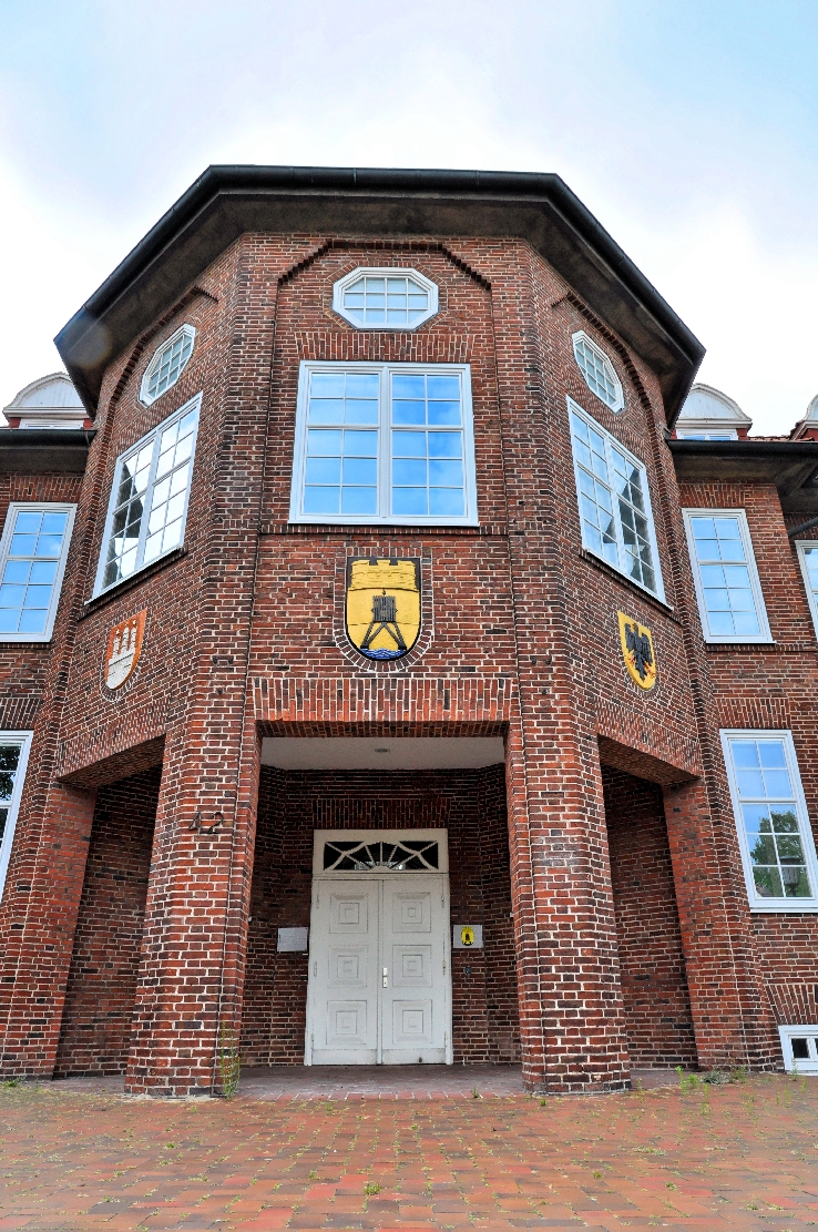 Rathaus Cuxhaven 2015